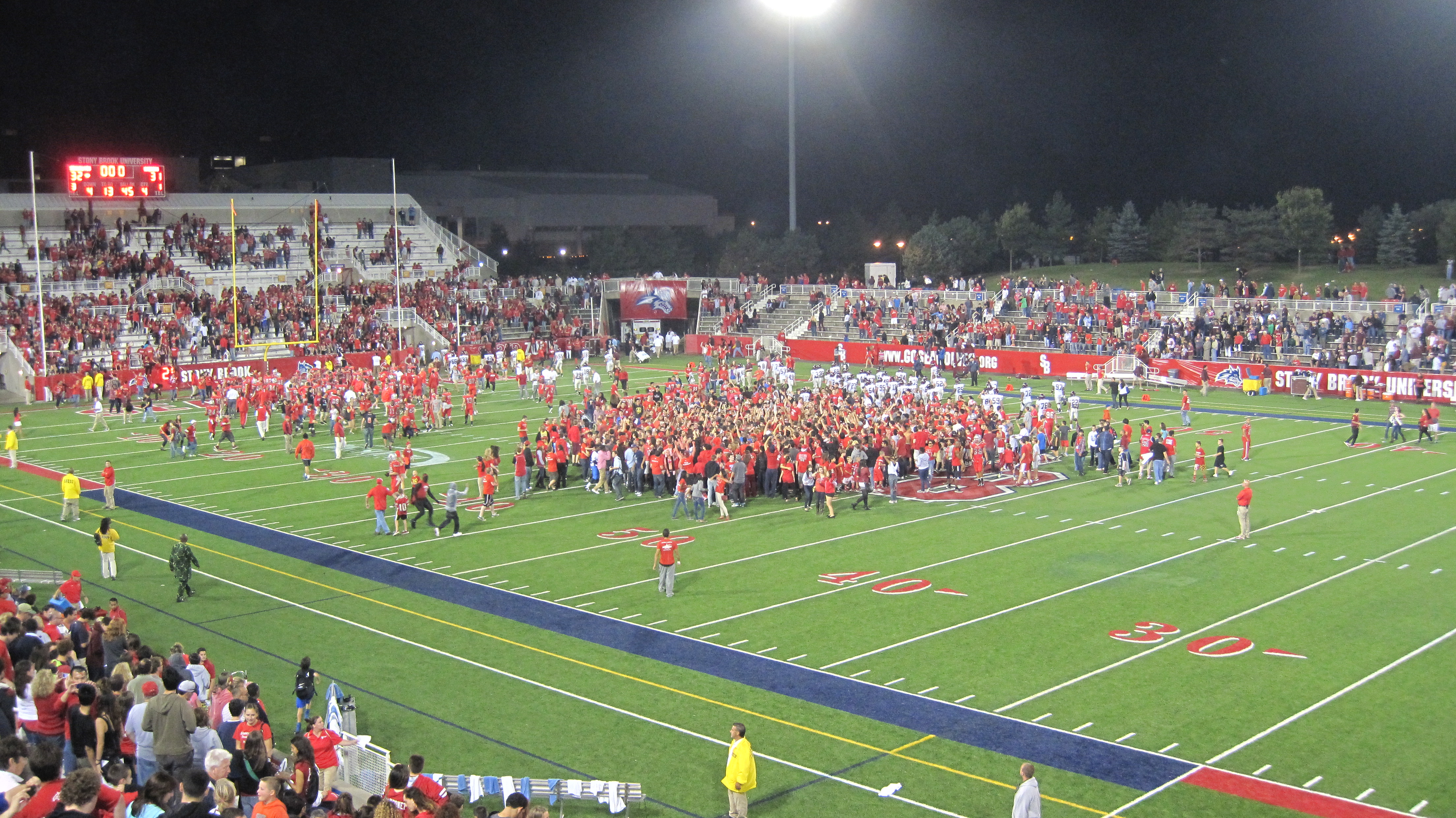 Stony Brook Seawolves School Spirit